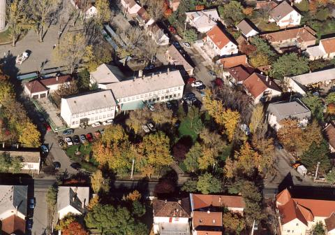 Vecsés, Hungary, aerialphotgraphy